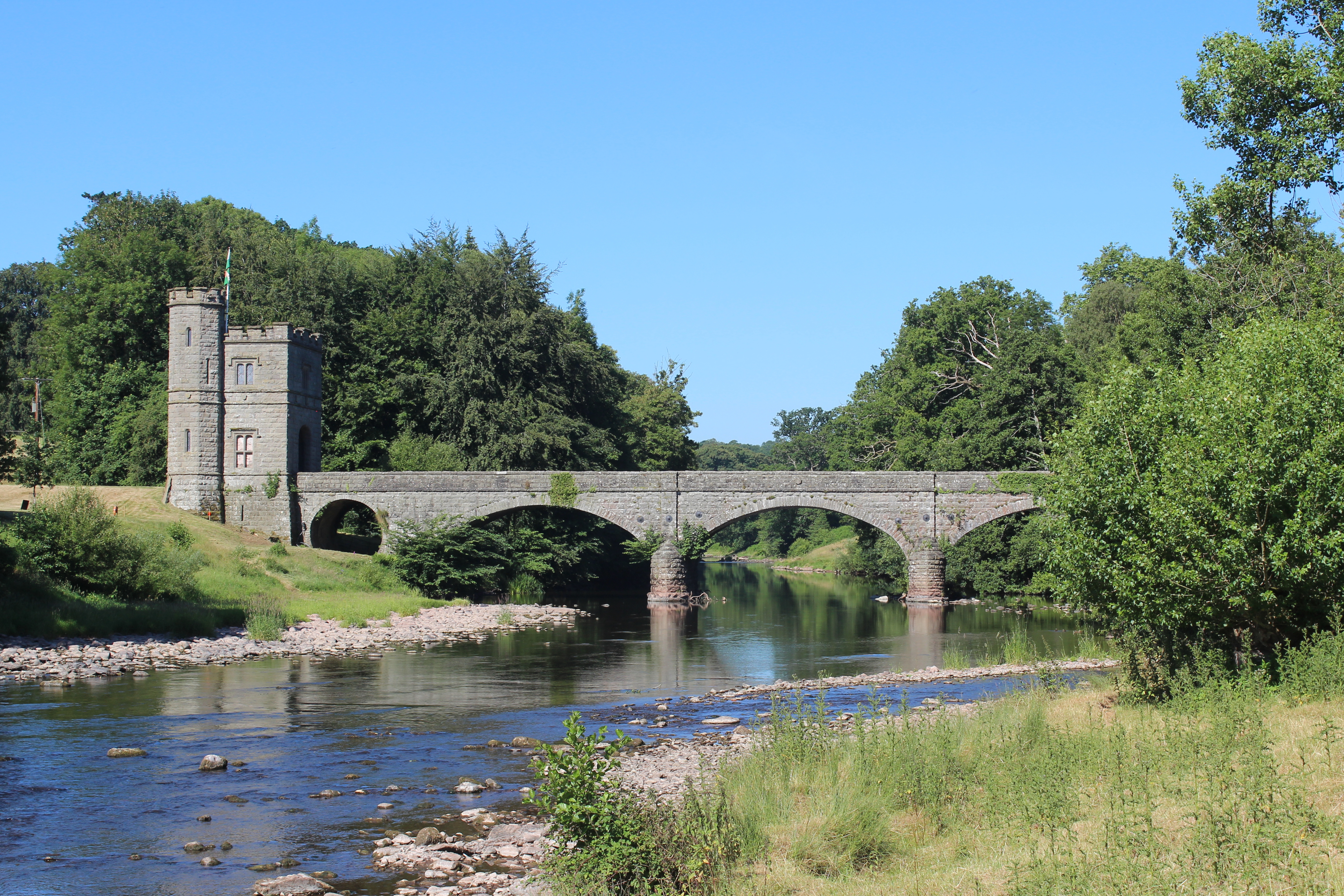 Glanusk Bridge and Tower spanning the River Usk on the Glanusk Estate (about 2.5 km west of Crickhowell). The bridge and tower, which gave access to were built in 1836, probably by Robert Lugar to provide access to Penmyarth Park which was incorporated into Glanusk Park in 1836. The bridge and the tower have been given separate listed building identifiers by Cadw.